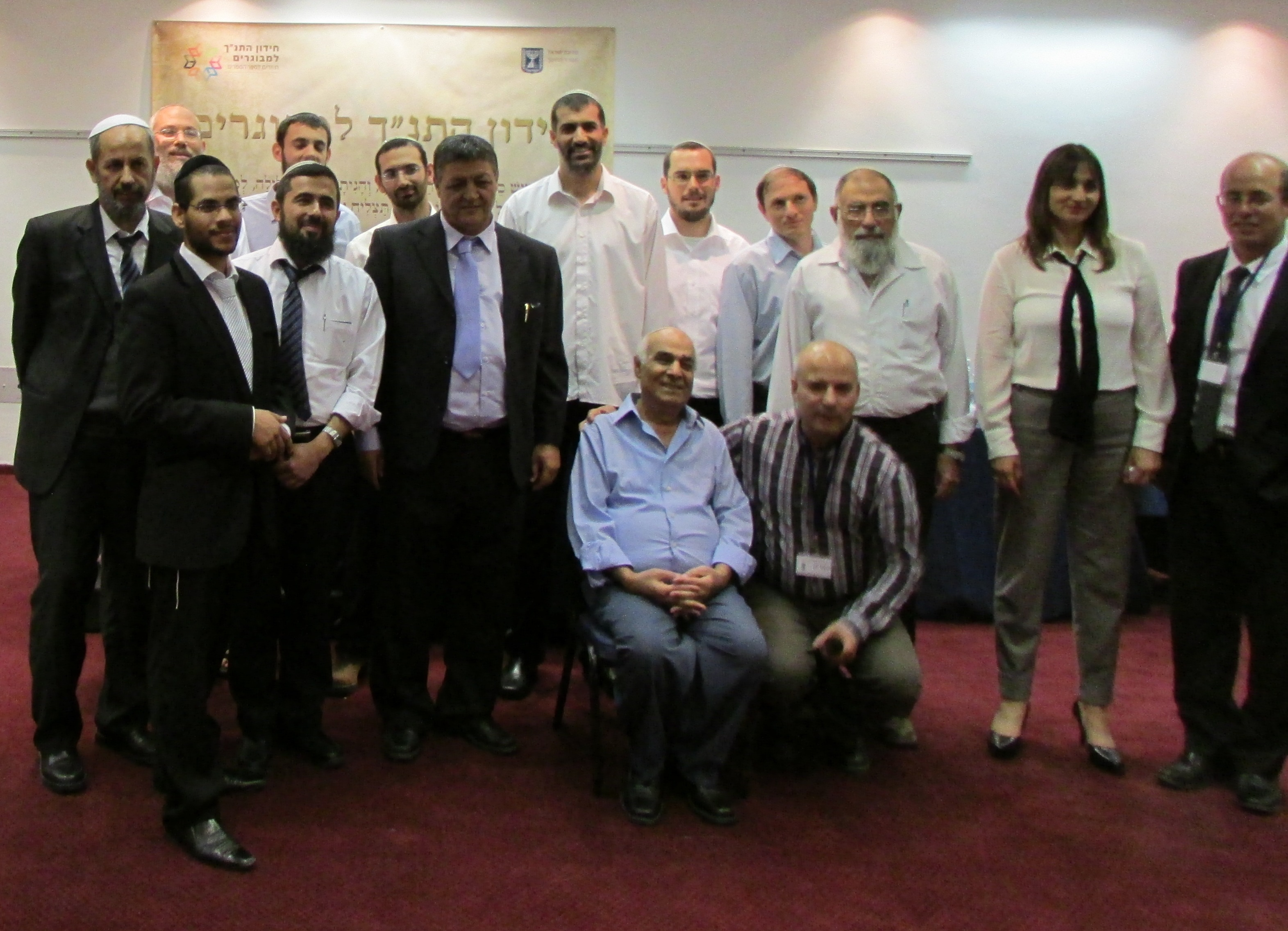 Michal Cohen, general manager of Israel ministry of education, with participants of Israel bible quiz 2013. On the right is Mr. Erez Eshel, head of the deprtment of youth and culture. Fifth from the right standing is Menachem Shimshi the winner of the bible quiz. Second place, Hananel Malka is standing eight from the right.